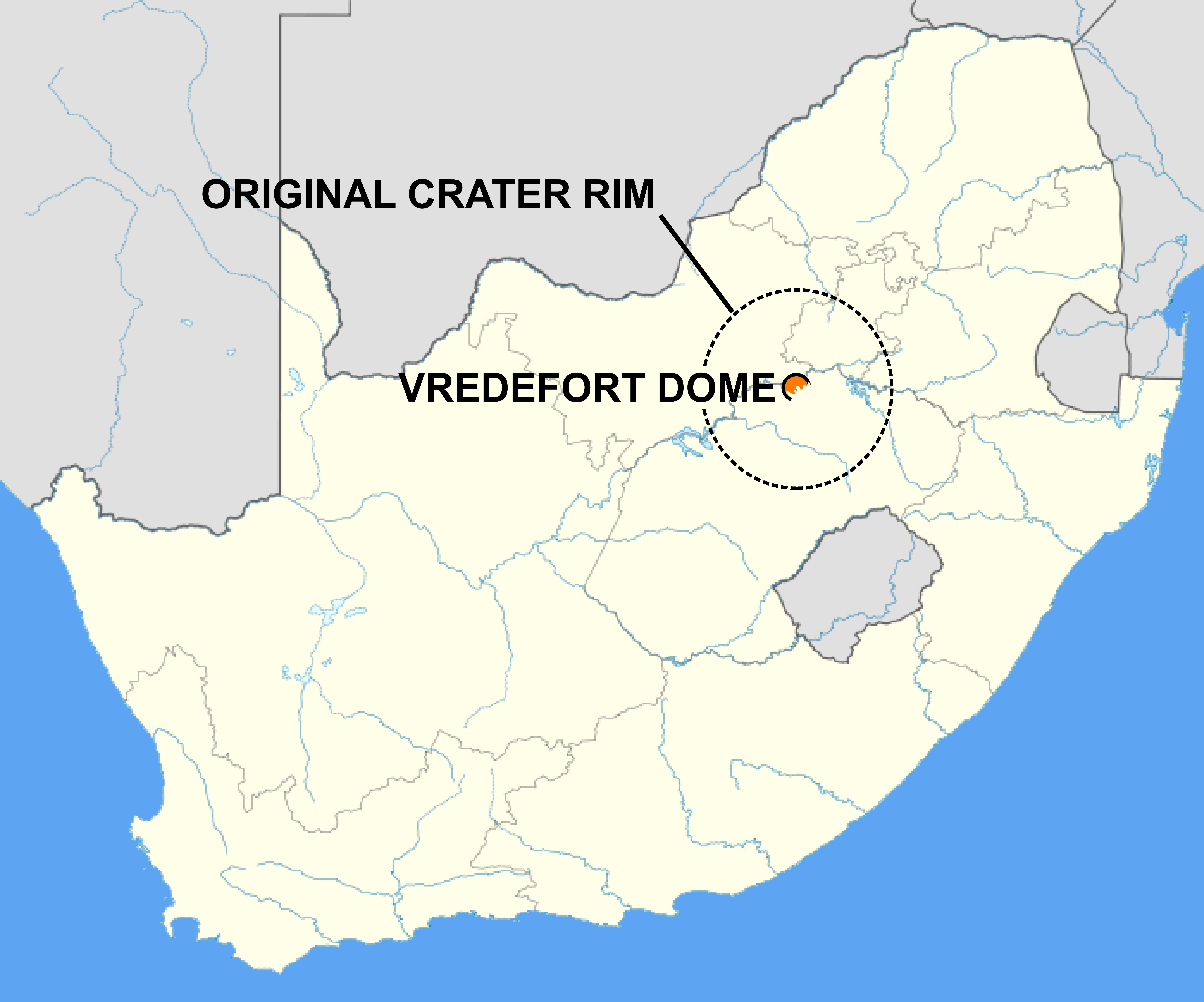 Map of South Africa showing the location of the Vredefort impact crater and the probable location of its original rim.